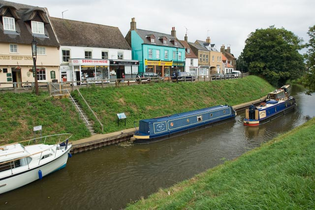 March town Quay - river Nene (old course) part of the Middle Level waterway